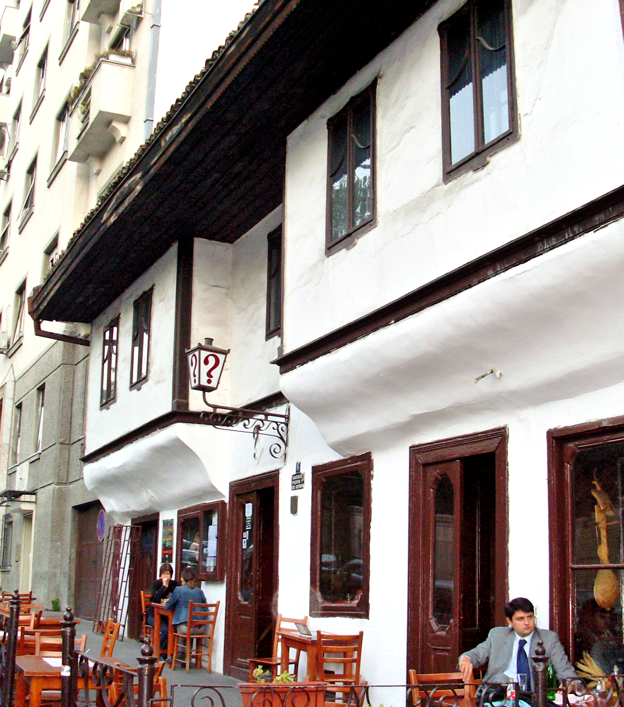 Cafe ? in Stari grad Belgrade